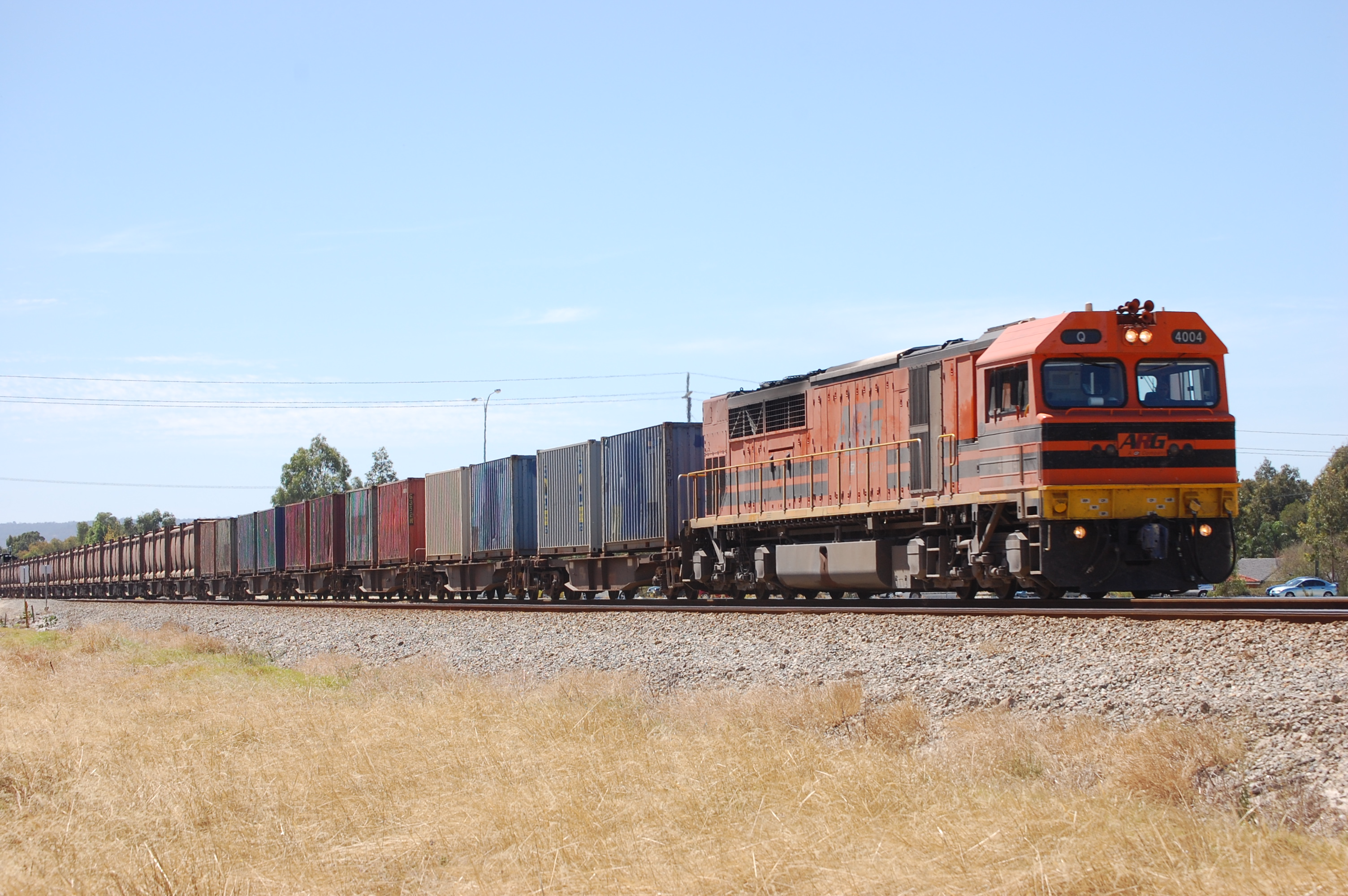 Q4004 hauls the Empty Sulphur train to Kwinana